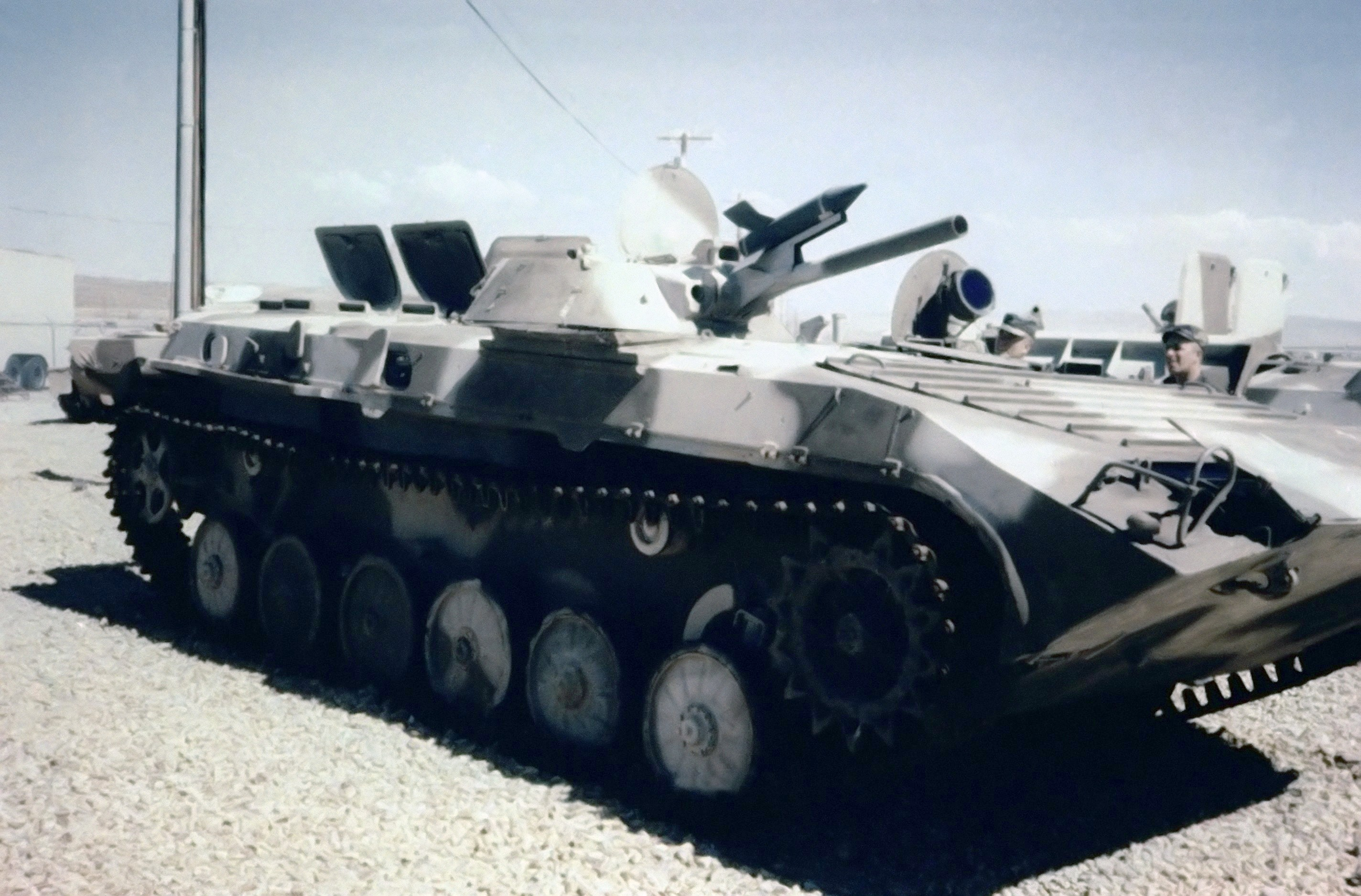 Iraqi BMP-1 IFV captured during Operation Desert Storm.